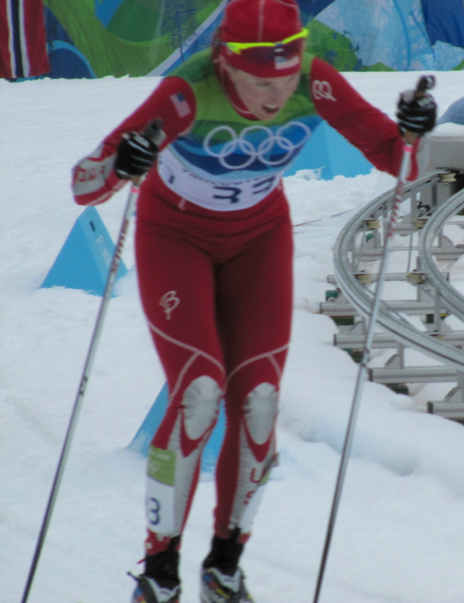 Kikkan Randall at the Ladies' 30 km mass start cross-country skiing classic on day 16 of the 2010 Vancouver Winter Olympics at Whistler Olympic Park Cross-Country Stadium, British Columbia, Canada.